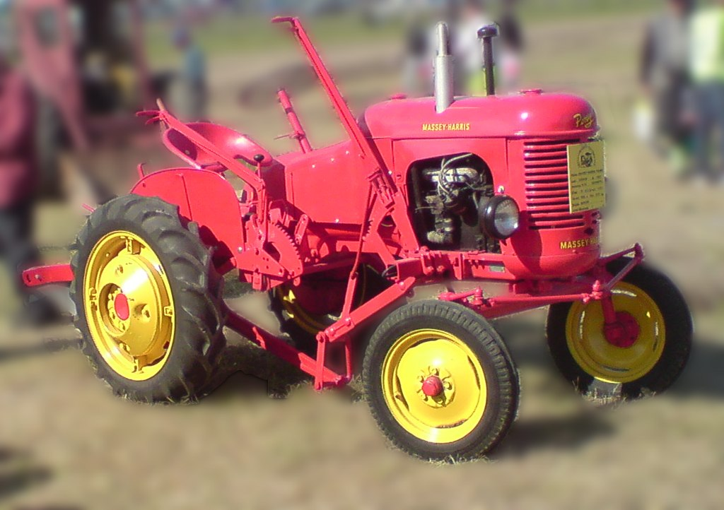 Massey-Harris from 1948